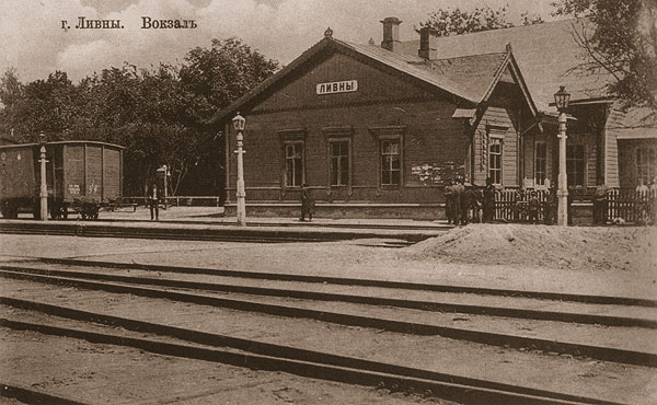 Old_Livny